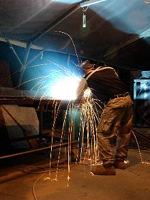 Electric welding